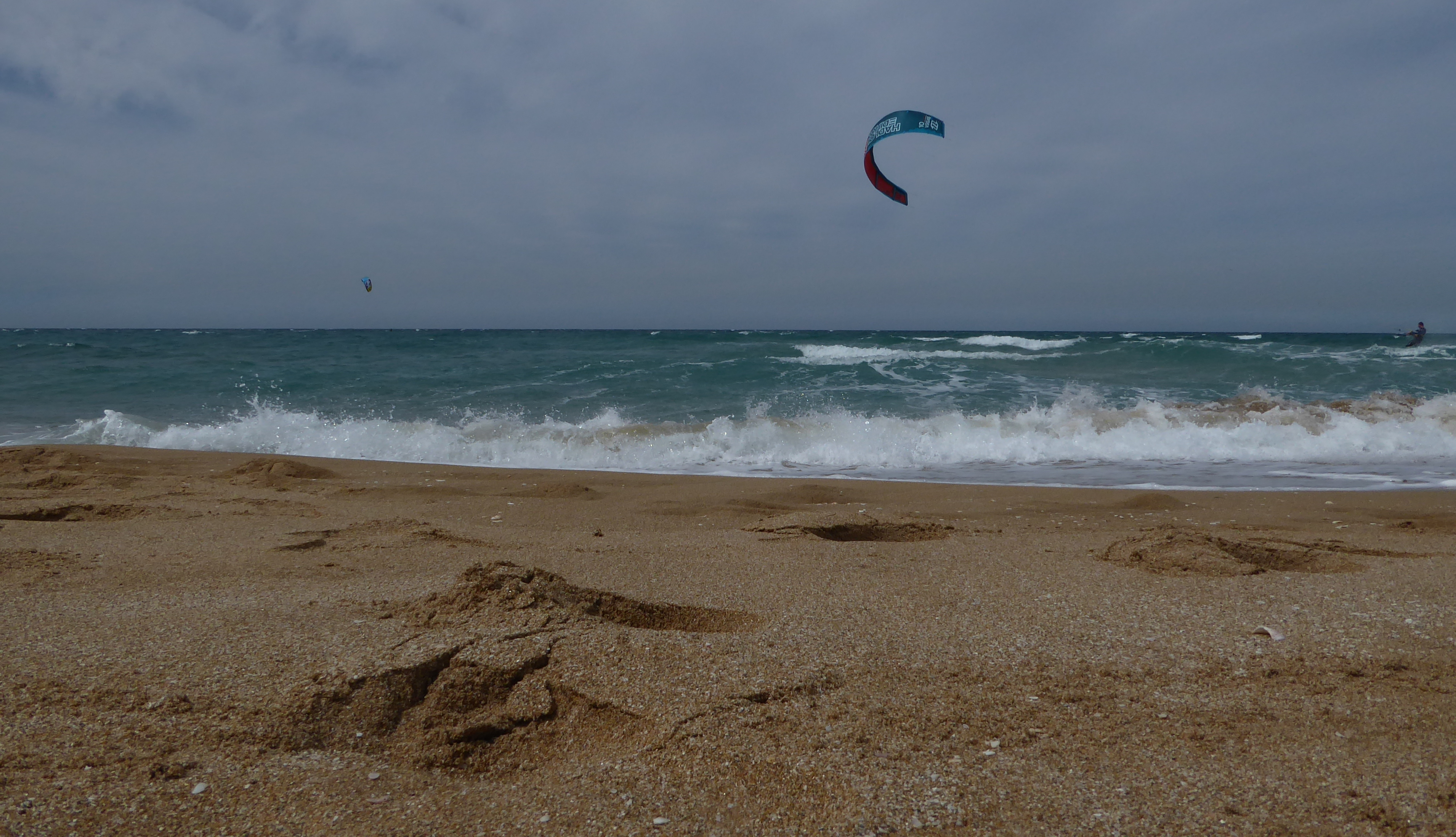 Beaches of Israel